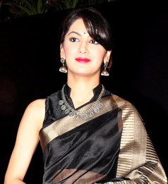 Sriti Jha at Celebs grace 7th edition of Aadhi Aabadi Women Achiever's Awards 2015.